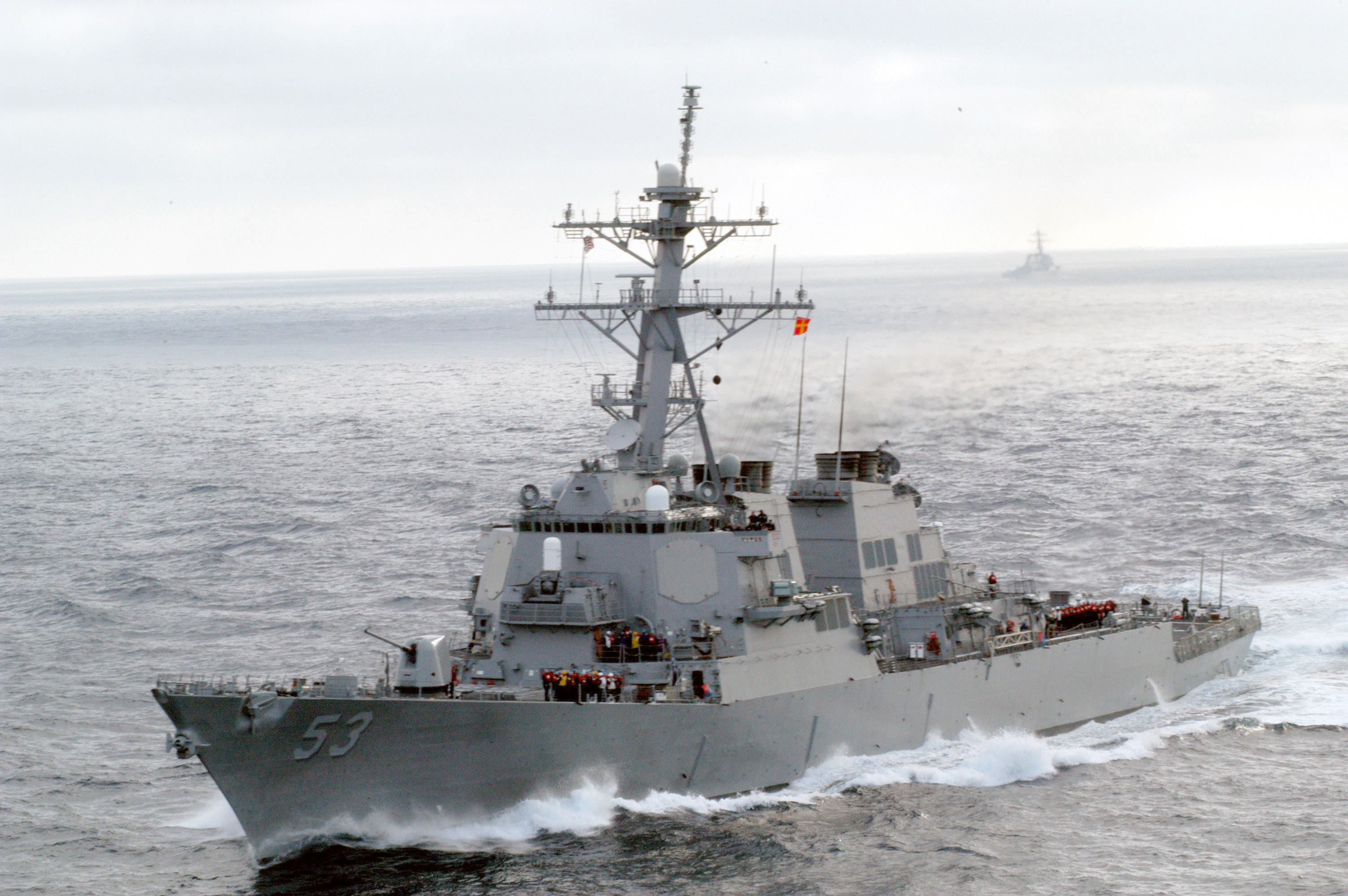 At sea with USS Carl Vinson (Nov. 17, 2002) -- The guided missile destroyer USS John Paul Jones (DDG 53) sails in the open waters as part of the Carl Vinson Battle Group. The Battle Group is currently underway off the South Western California coast conducting training in preparation for their next scheduled deployment. U.S. Navy photo by Photographer's Mate Airman Chris M. Valdez. (RELEASED)